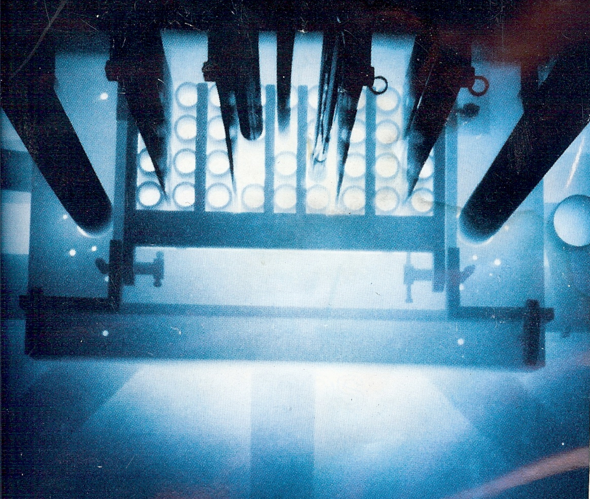 The core of the LANL Omega West Reactor, showing Cherenkov Radiation.